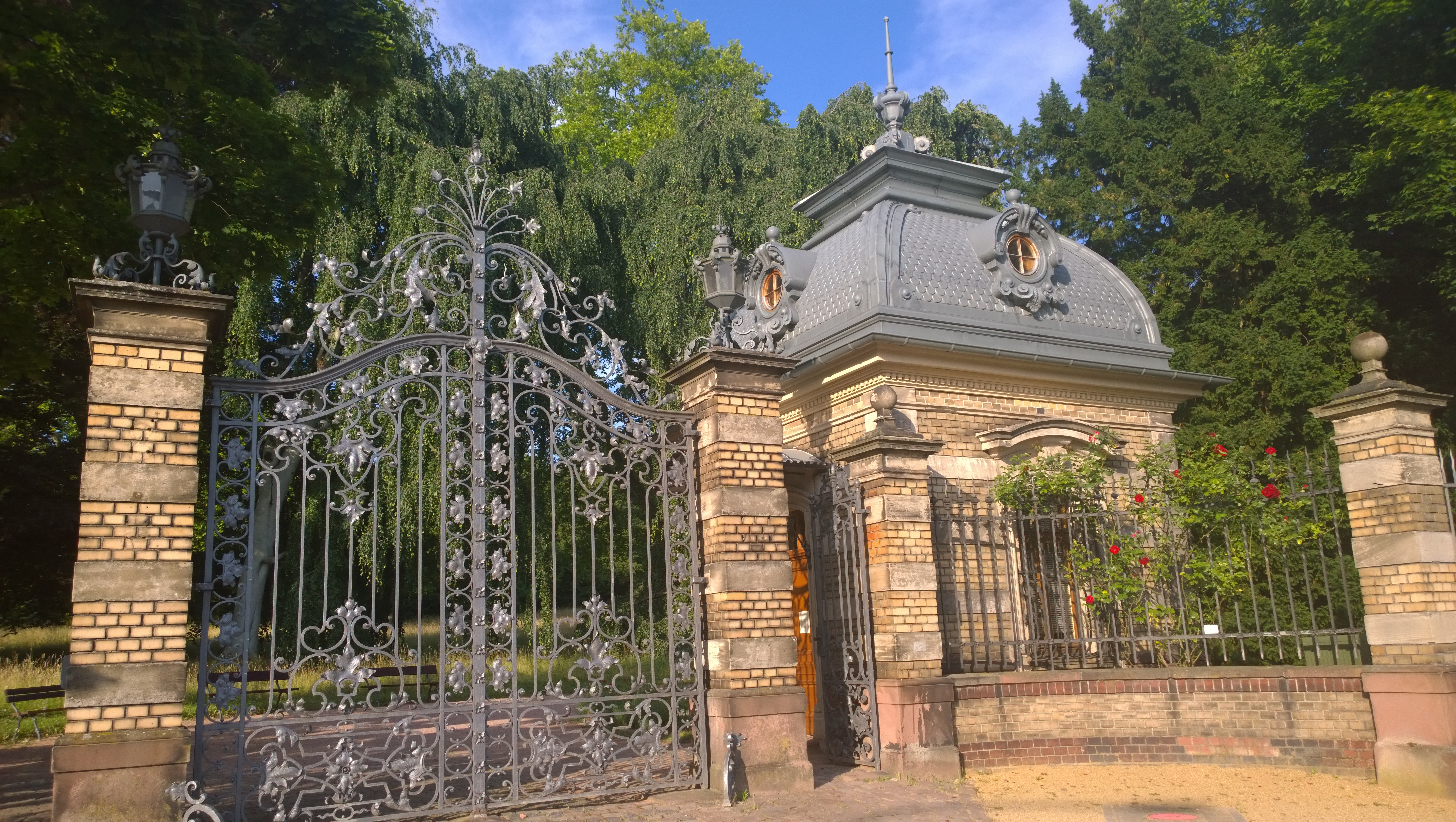 Past gatekeeper's house for the palace Rosenhoehe, now sothwest park entry